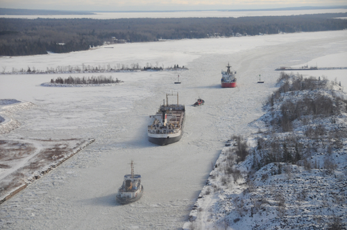 U.S. Coast Guard Cutters Biscayne Bay (bottom) and Mackinaw (top) break ice in the lower end of the Rock Cut in the St. Mary’s River in Michigan. The cutters were called to break ice in the area after the freighter Cedarglen (center) became beset by ice the previous day. Cedarglen was beset for approximately 19 hours before the Coast Guard vessels were able to free it.